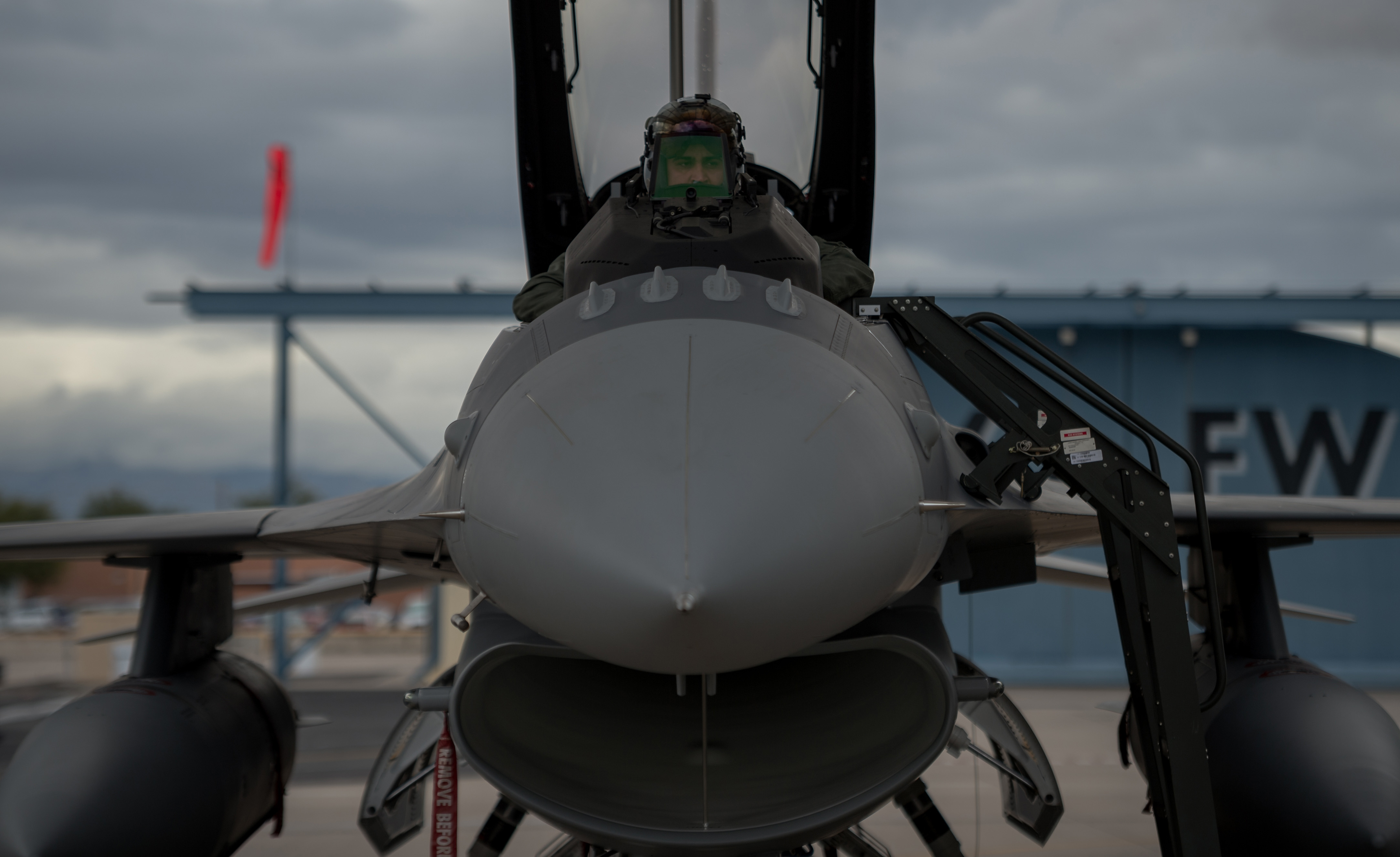 Iraqi air force captain Hama conducts a preflight inspection while inside a new IAF F-16 Fighting Falcon Dec. 17, 2014 at the Tucson International Airport, Ariz. Hama was part of the first class of Iraqi students training with the 162nd Wing to further enhance interoperability between the two partner nations. (U.S. Air Force photo/Senior Airman Jordan Castelan)